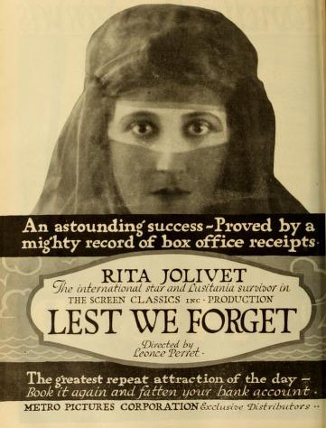 Advertisement in Moving Picture World for the American film Lest We Forget (1918) with Rita Jolivet.